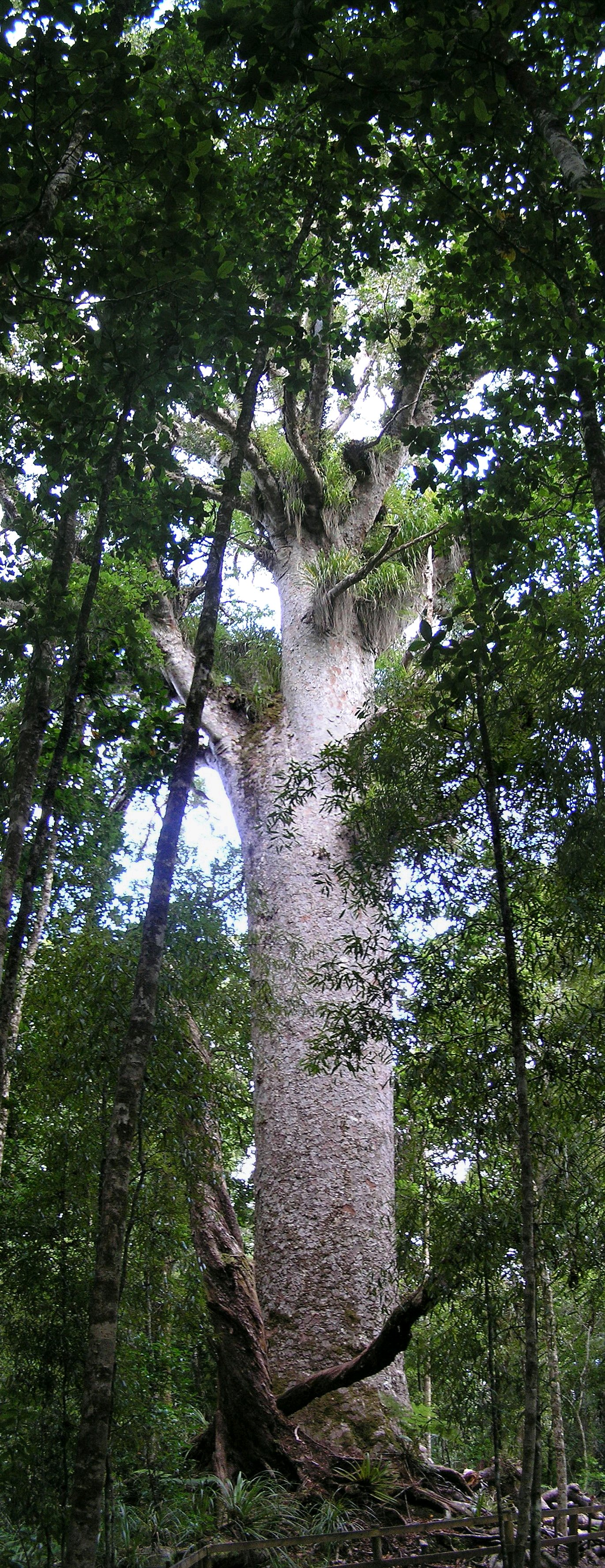 Kauri at Waipoua Forest (Northland, New Zealand). Author: Mr. Tickle Date: March 28th, 2005